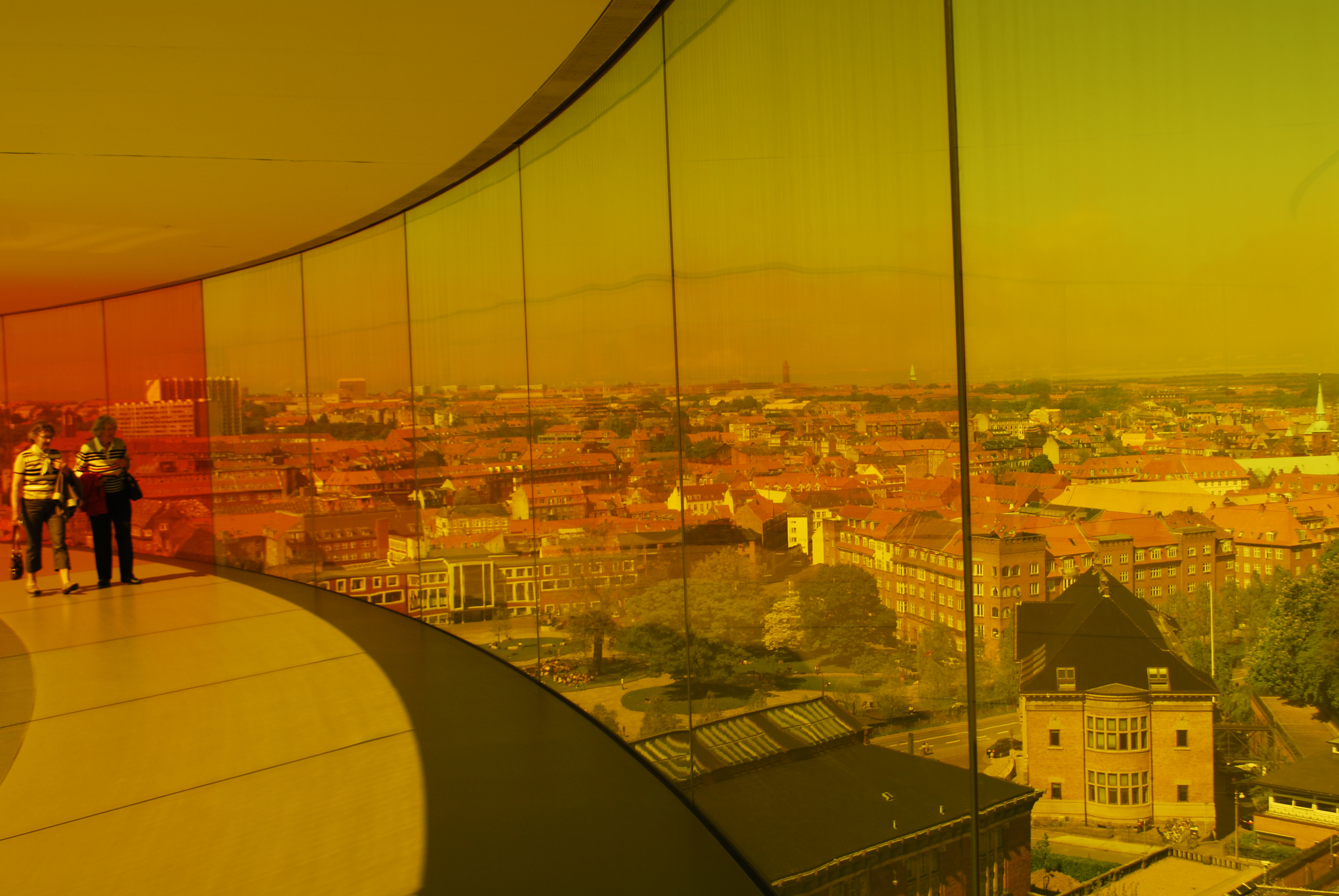 ARoS Aarhus Kunstmuseum, Aarhus, Denmark